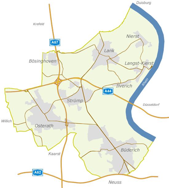 General map of Meerbusch, North Rhine-Westphalia, Germany